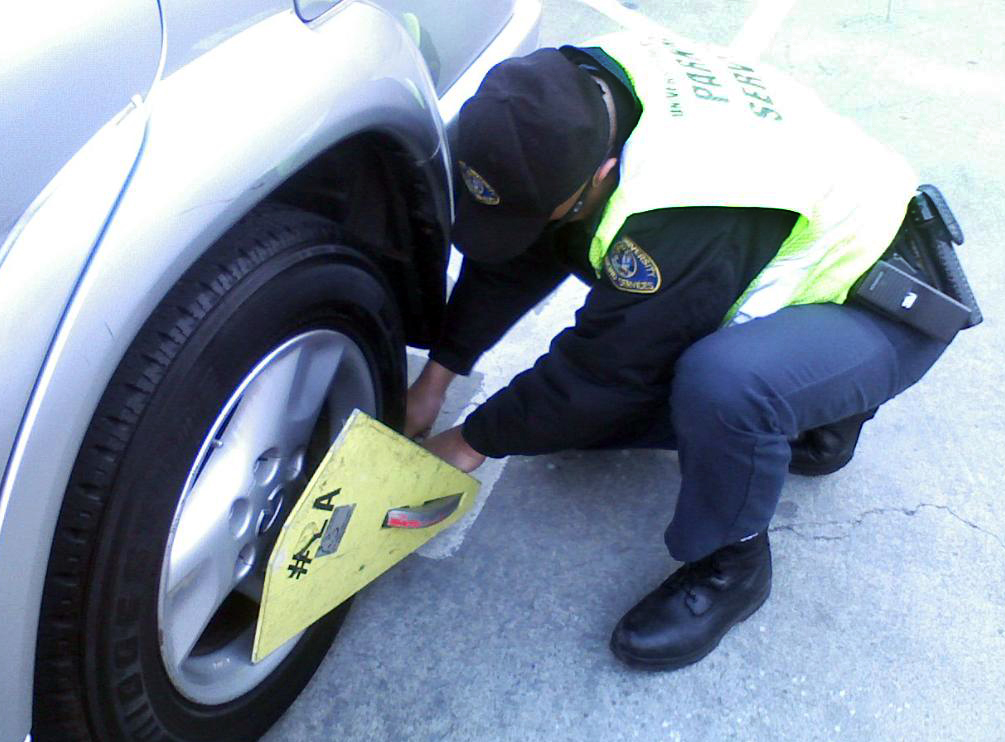 A parking enforcement officer clamps the wheel of a 2002 silver Infiniti Qx4 on the campus of San Jose State University in California. Picture taken on an LG VX8550LK cell phone and levels adjusted in Photohop.